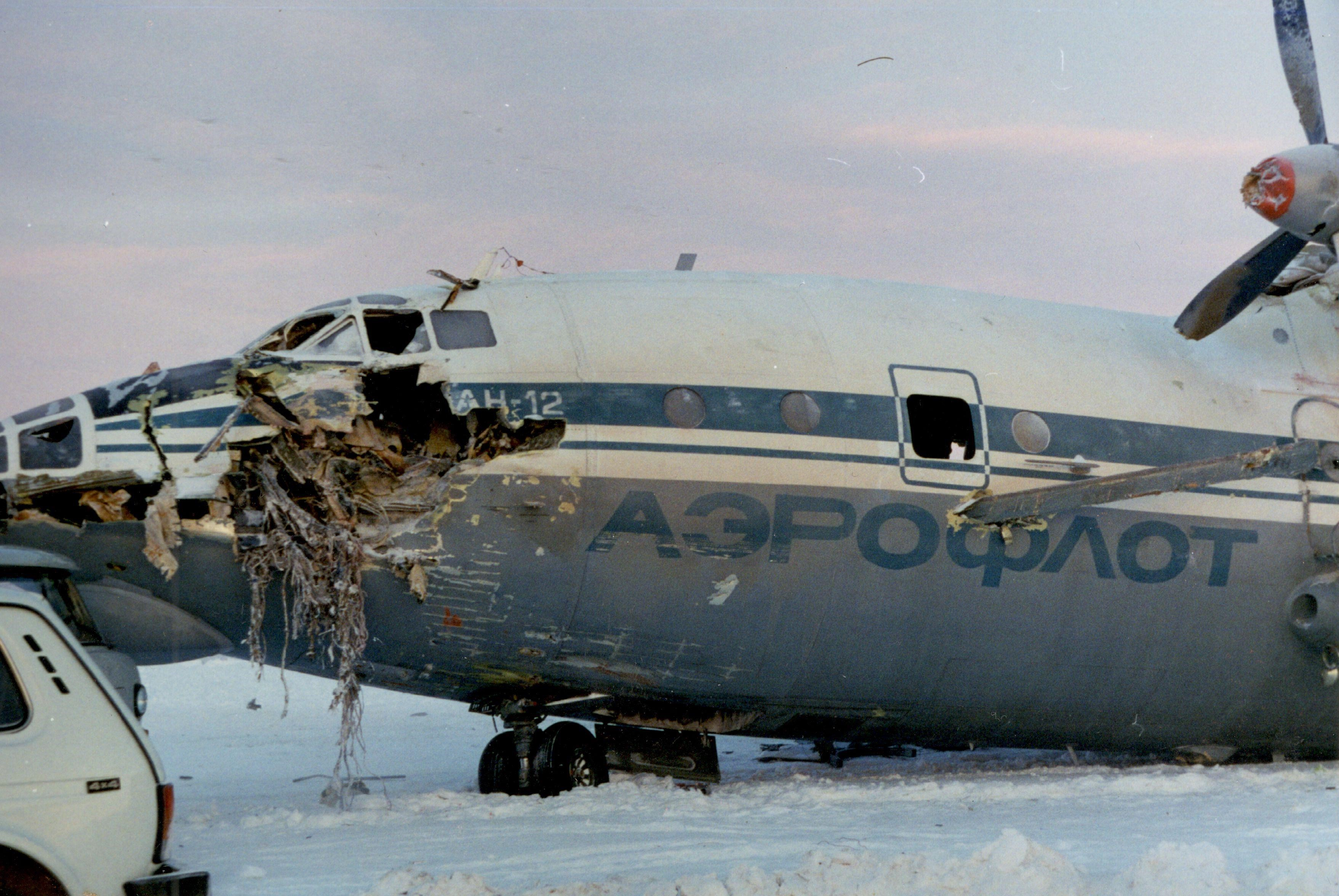 An-12 after the accident in Naryan-Mar on December 11, 1997